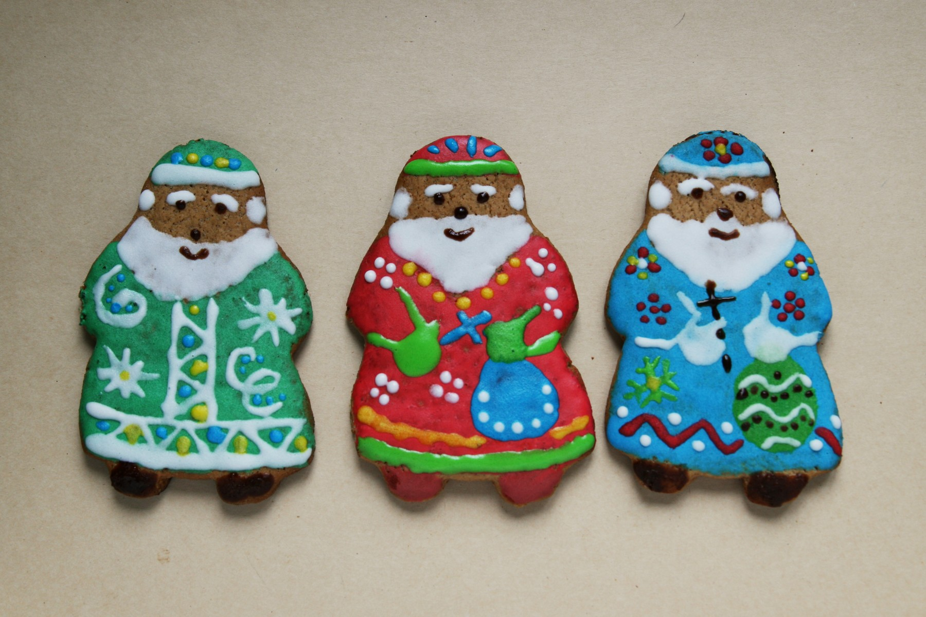 Making "mykolajchyky" (cookies for Saint Nicholas Day in Ukraine)